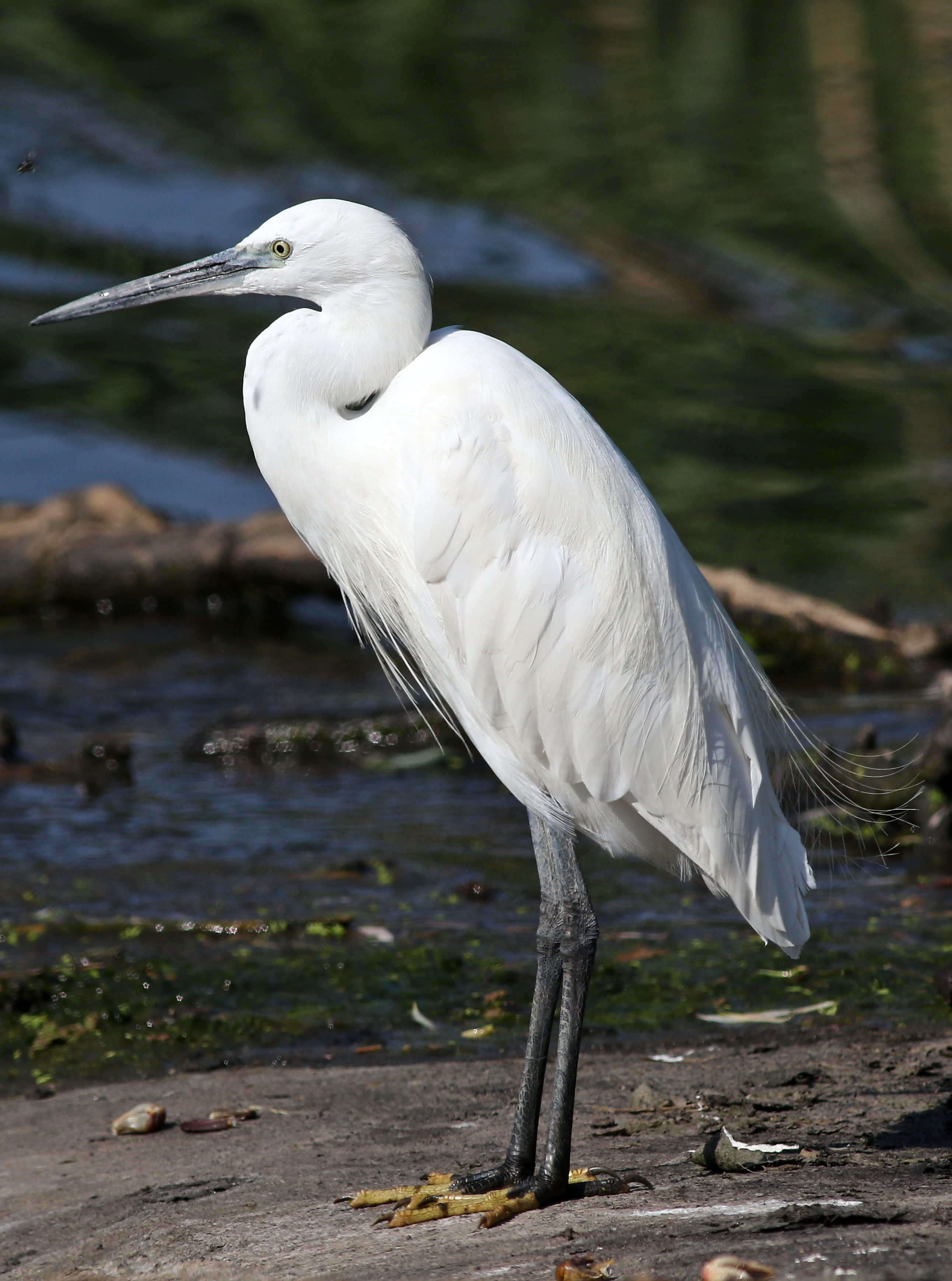 Little Egret, Egretta garzetta at Rietvlei Nature Reserve, Gauteng, South Africa